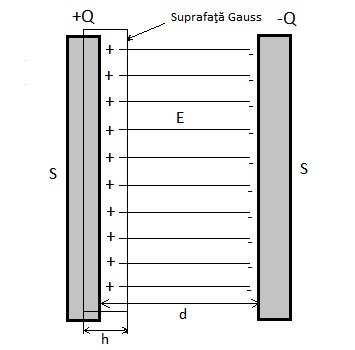 a parallel-plate capacitor